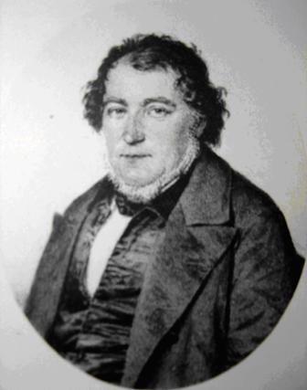 Portrait of Joseph Koechlin-Schlumberger (1796-1863) by Josué Dollfus (1796-1887).